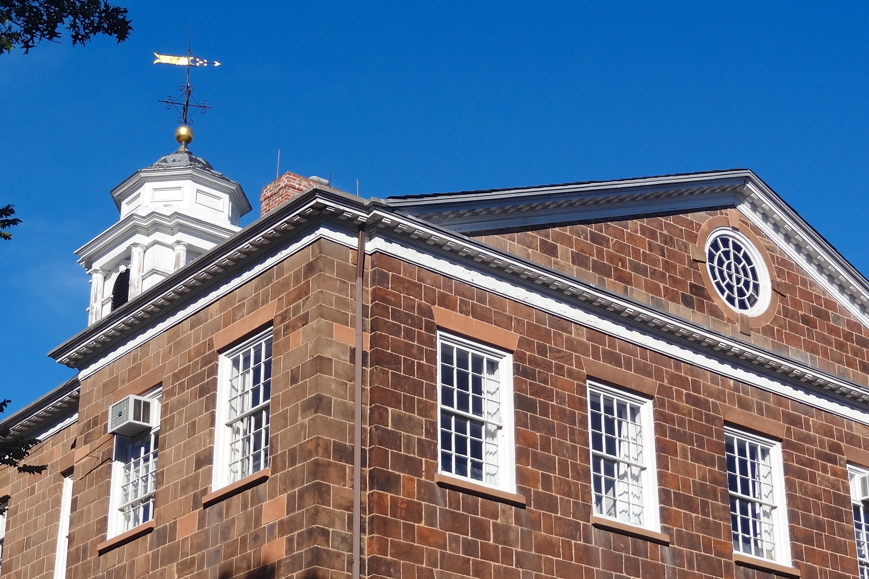 Details of the cupola and brownstone of Old Queens on the campus of Rutgers University in New Brunswick, New Jersey.